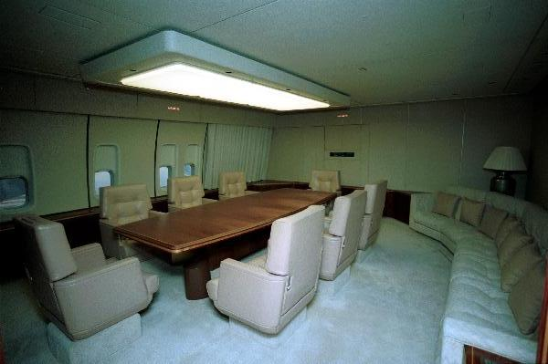 President's Conference Room aboard Air Force One.